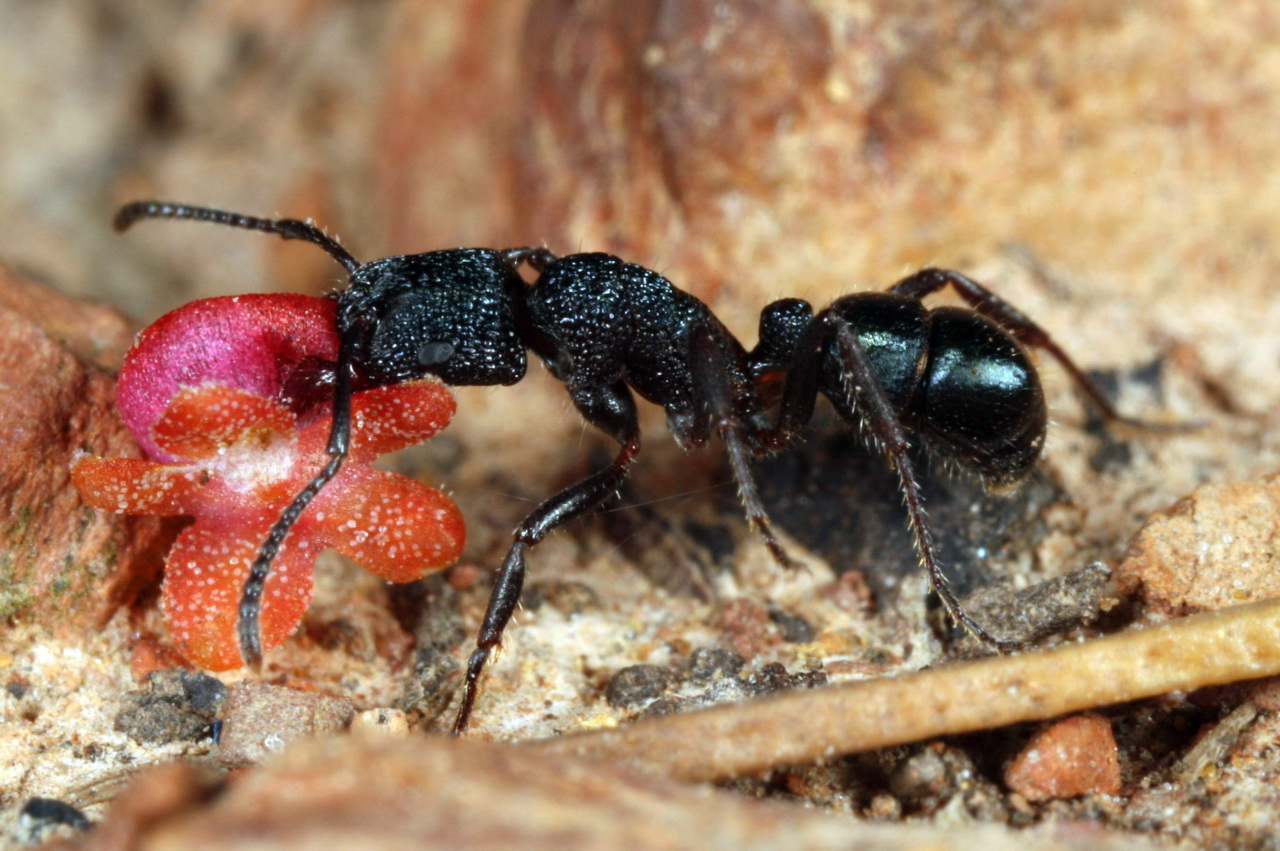 Rhytidoponera metallica workers are common across southern Australia and are often seen in parks and gardens. They are general scavengers and will even take small flowers into their nests.